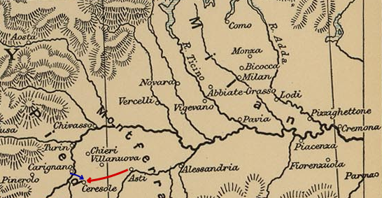 French and Imperial movements before the Battle of Ceresole.